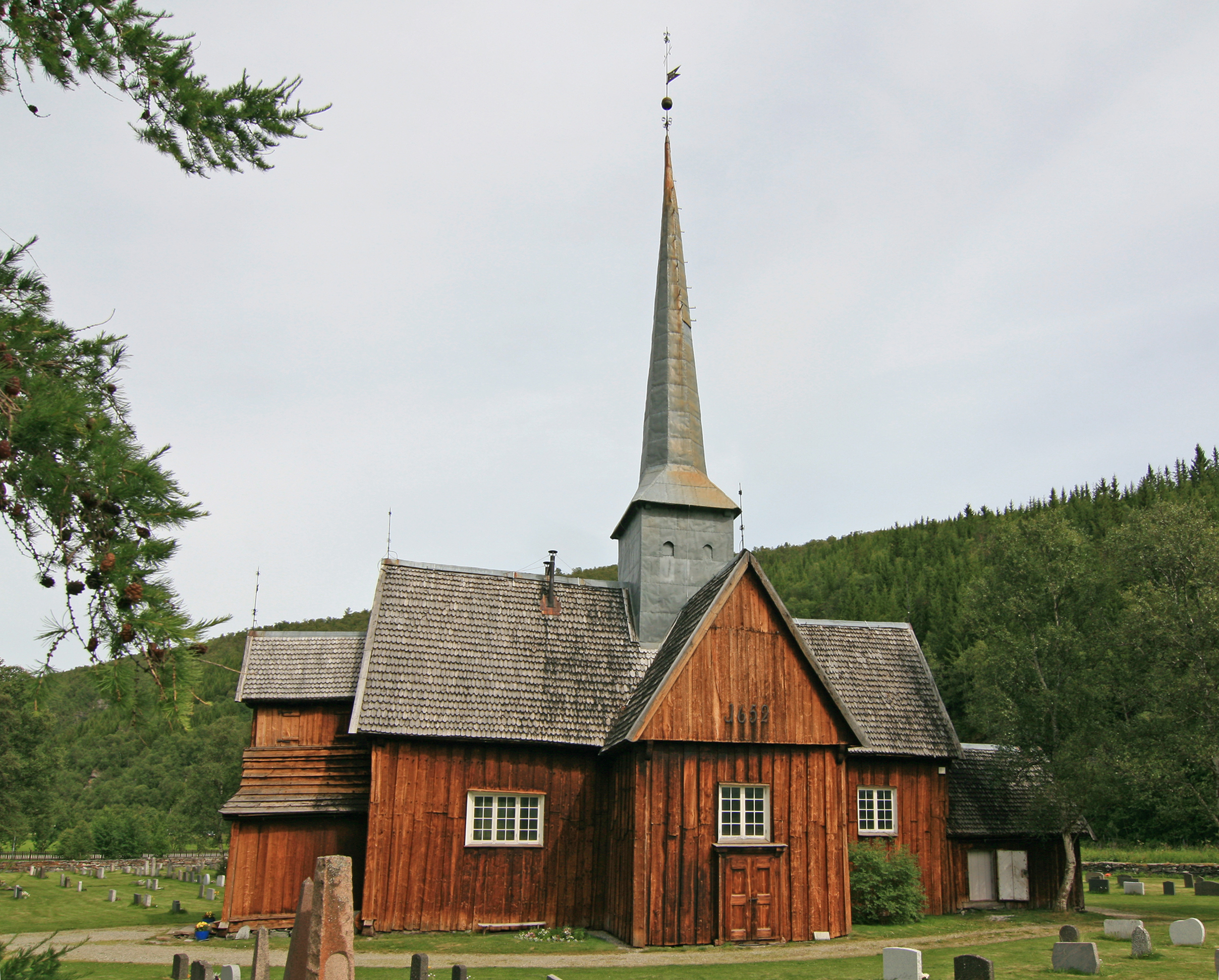 Kvikne church, Hedmark, Norway. Built in 1652.